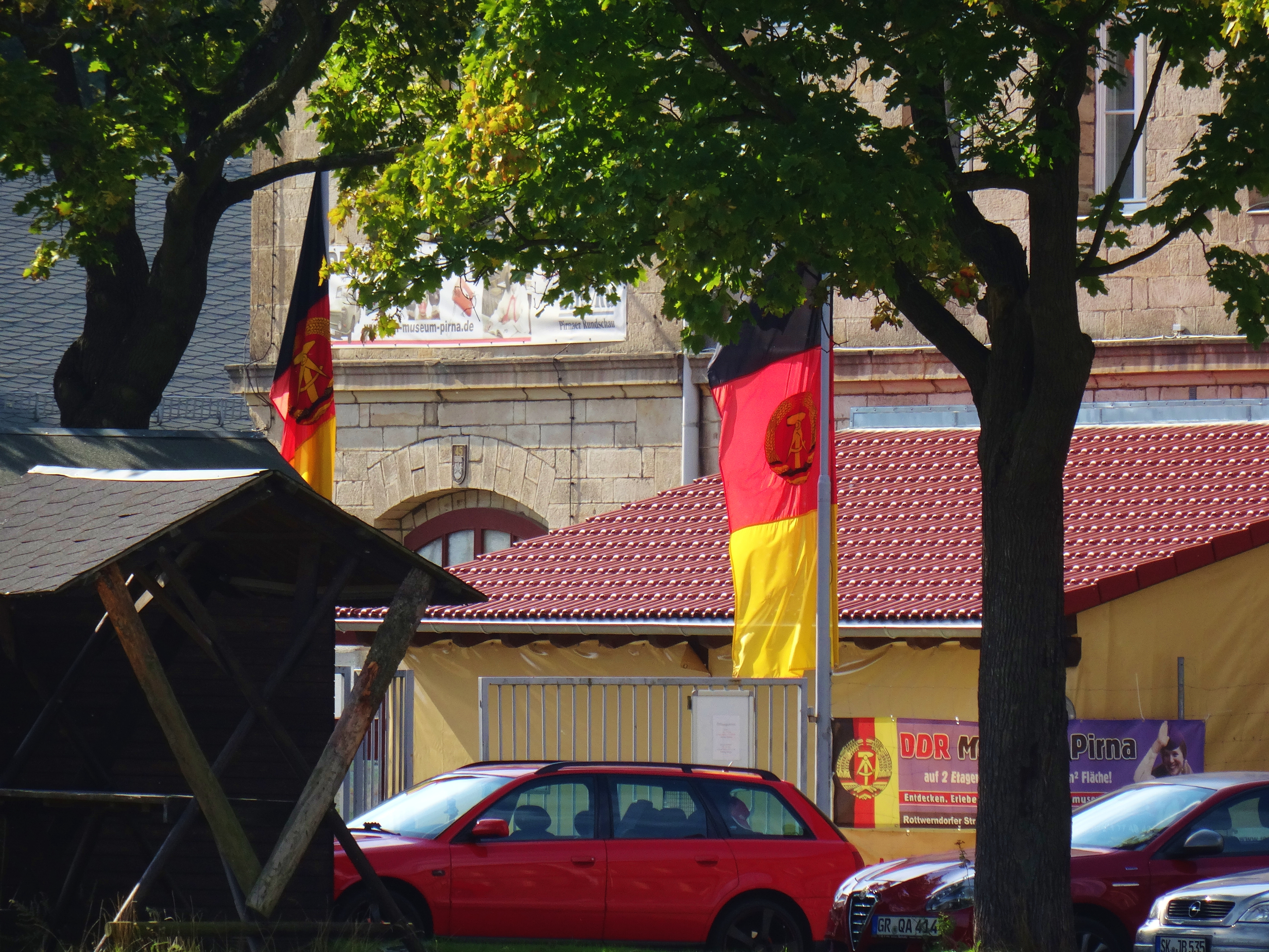 Rottwerndorfer Straße, Pirna